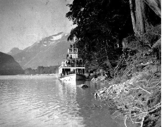 Monte Cristo, a sternwheel steamboat, on the Skeena River, circa 1900.